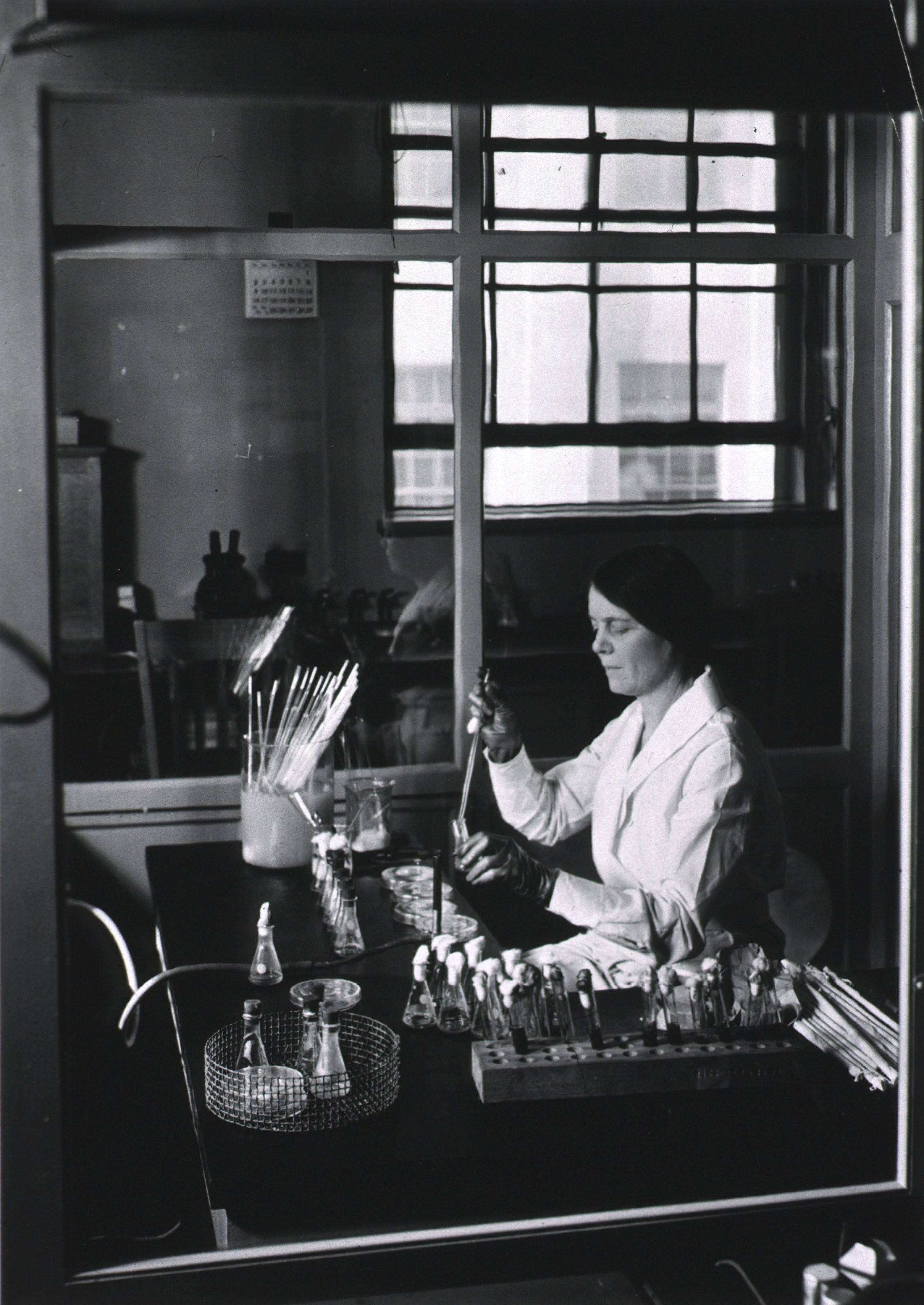 Ida A. Bengtson, the first woman to be hired as a bacteriologist in the United States Hygienic Laboratory, now known as the National Institutes of Health.